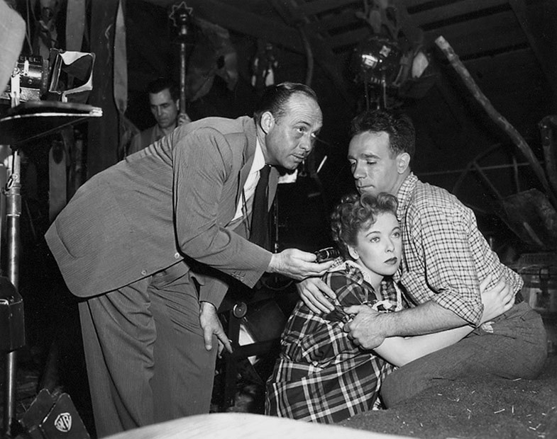 Left to right: Ted McCord (cinematographer), Ida Lupino, and Dane Clark on the set of Deep Valley (1947) - publicity still